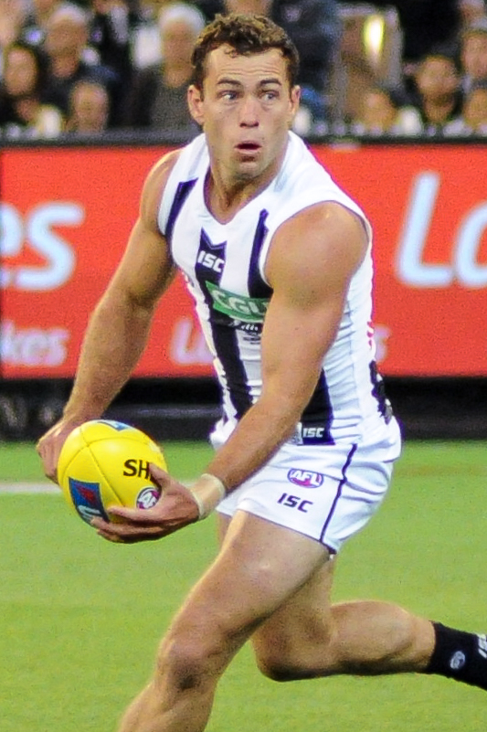 Jarryd Blair during the AFL round two match between Richmond and Collingwood on 30 March 2017 at the Melbourne Cricket Ground in Melbourne, Victoria.